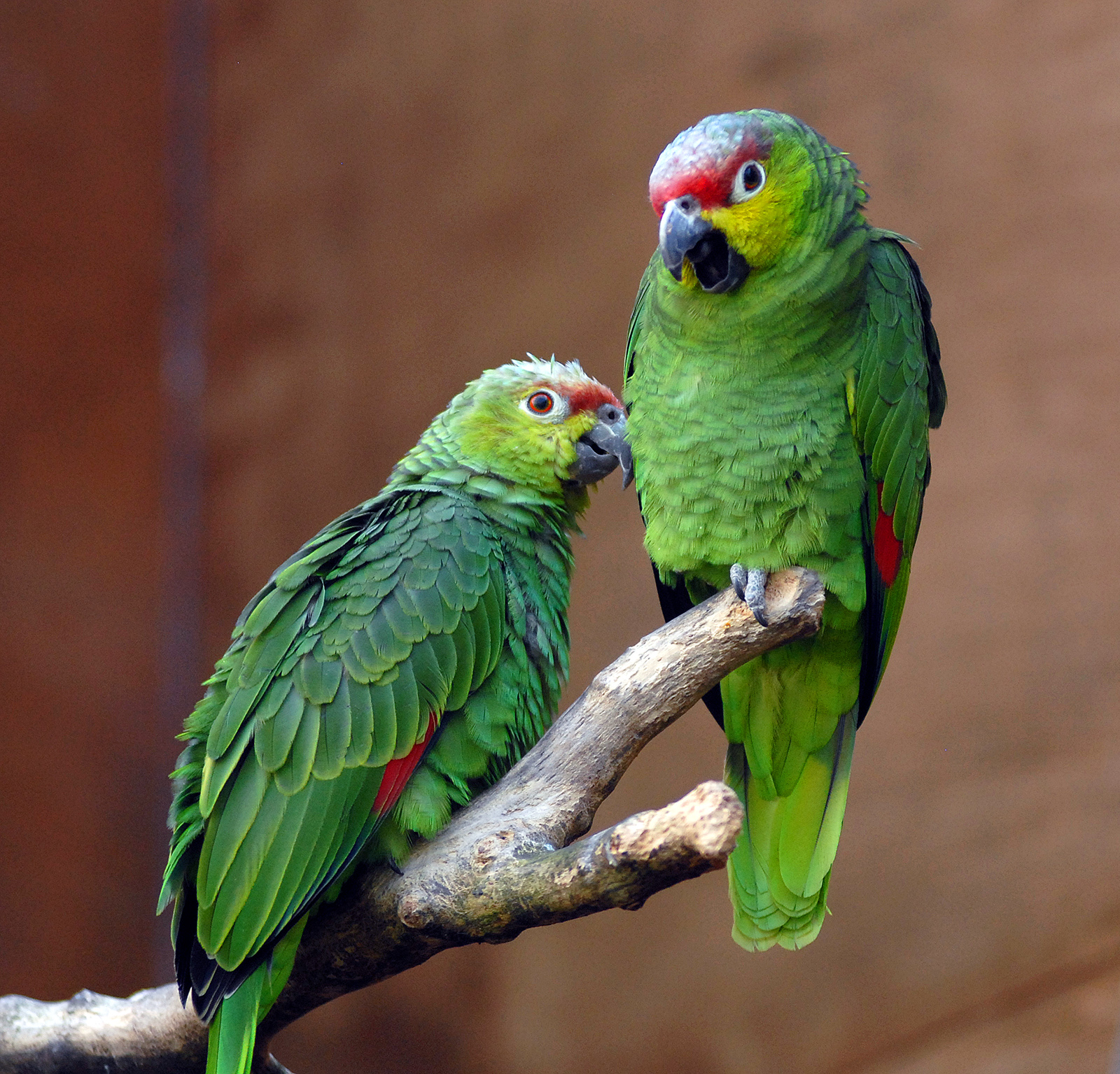 Lilacine Amazon (also known as the Ecuadorian Red-lored Amazon) at Chester Zoo, England.